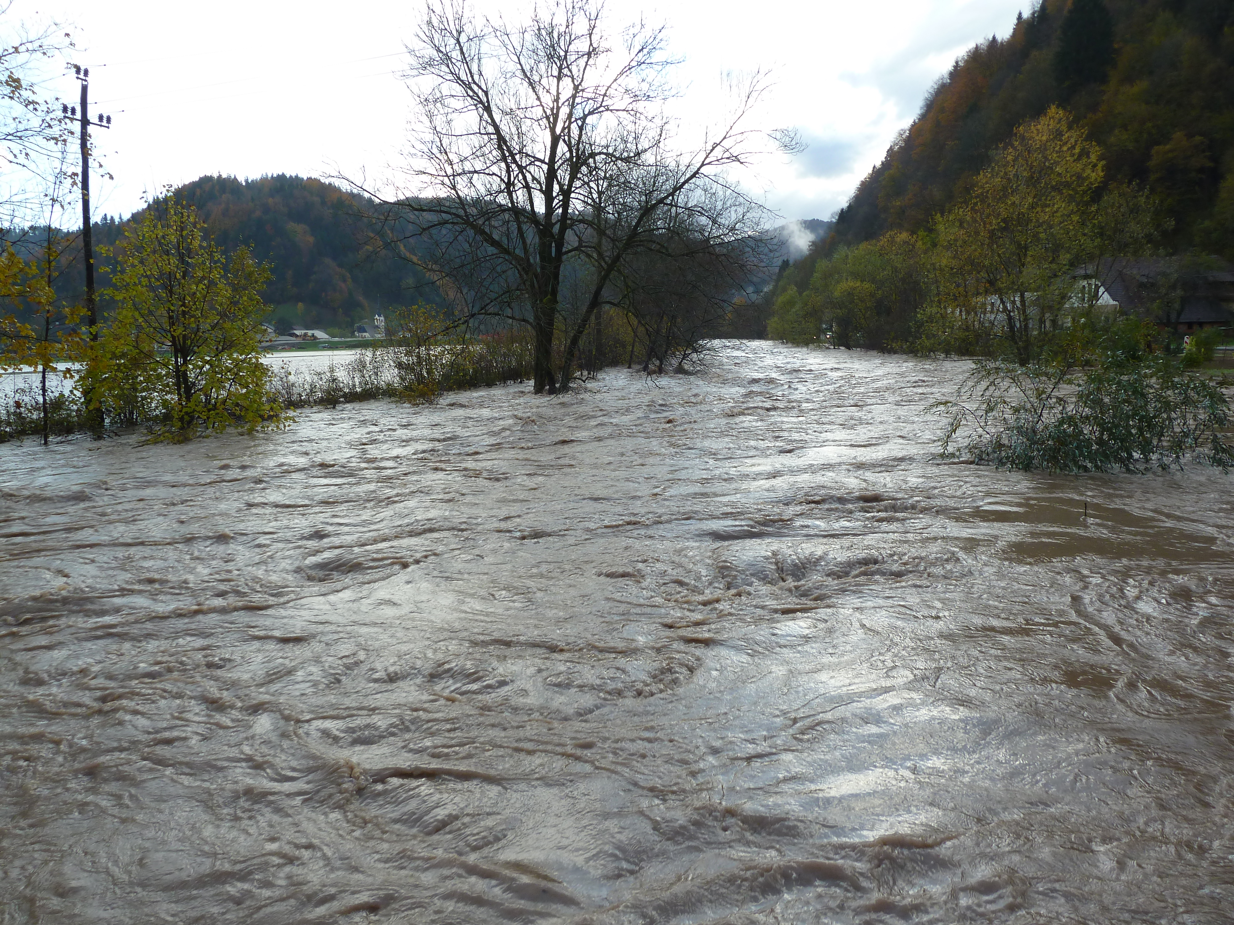 Swollen Poljanska Sora at Zminec